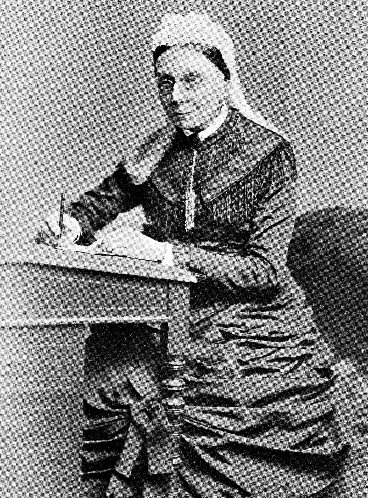 Mrs Wardroper at her desk: superintendent of the Nightingale Fund Training School 1860-87 General Collections Keywords: History of Nursing; Nursing; Wardroper (nee Bisshop)